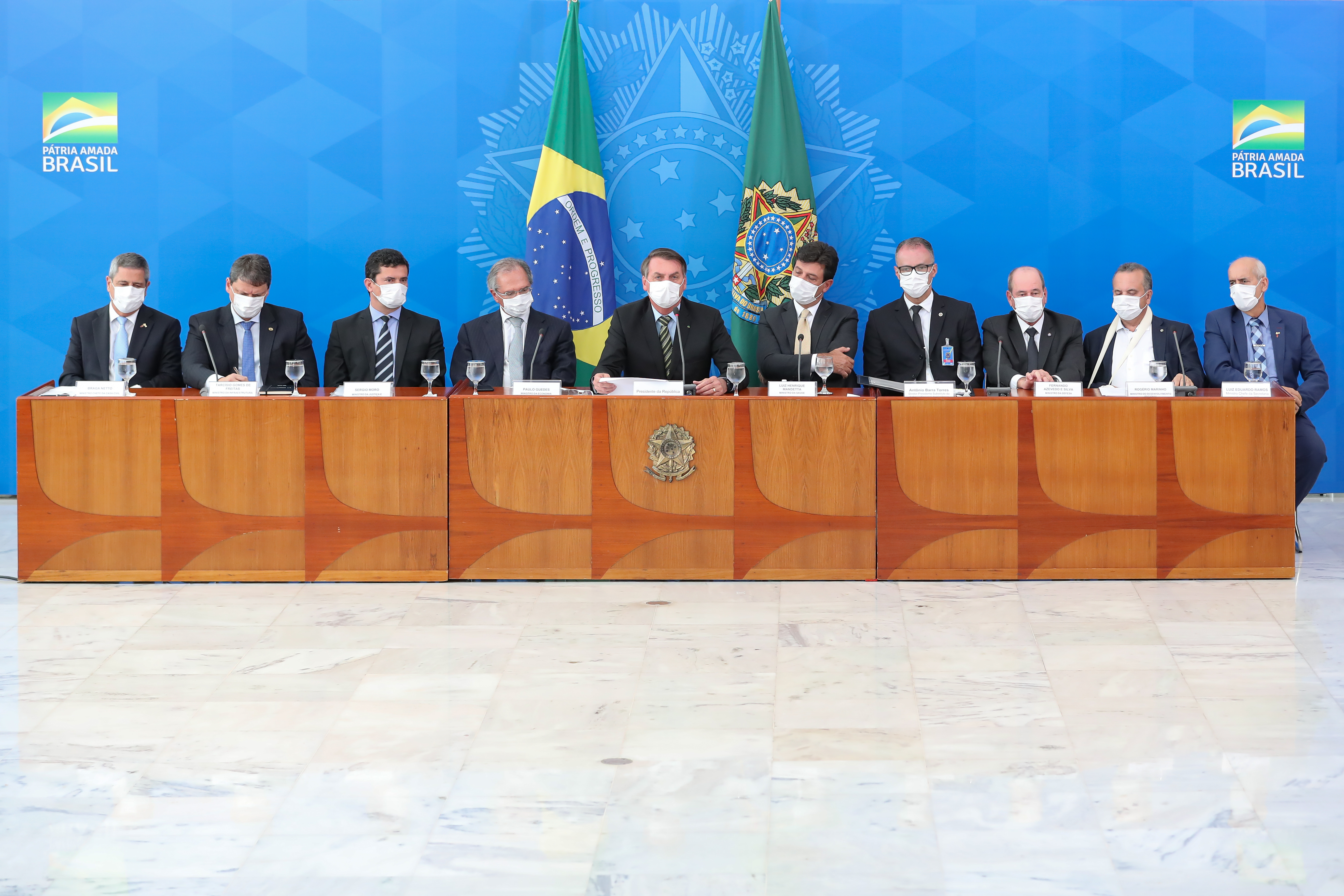 (Brasília - DF, 03/18/2020) Press conference by the President of the Republic, Jair Bolsonaro and Ministers of State.